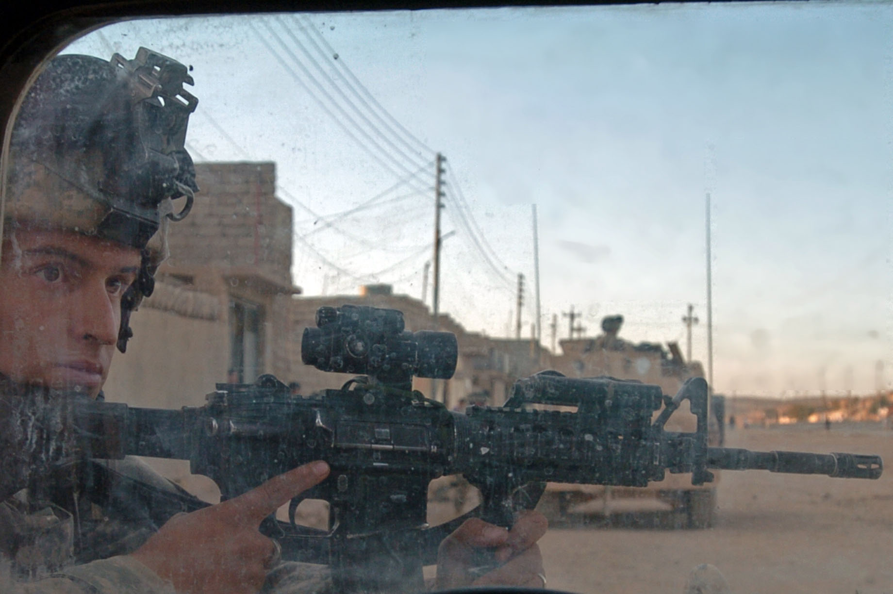 Tall Afar, Iraq (Nov. 1, 2005) – U.S. Army Soldiers assigned to 2nd Battalion, 325th Airborne Infantry Regiment, 82nd Airborne, conduct a routine search of houses for any weapons or Improvised Explosive Devices (IED) in Tall Afar, Iraq. Iraqi Army Security Forces with assistance from the 3rd Armored Cavalry Regiment and 82nd Airborne Infantry Regiment unit are providing security for the region of Tall Afar in order to disrupt insurgent safe havens and to clear weapons cache sights in the area of operation. U.S. Navy photo by Photographer's Mate 1st Class Alan D. Monyelle (RELEASED)